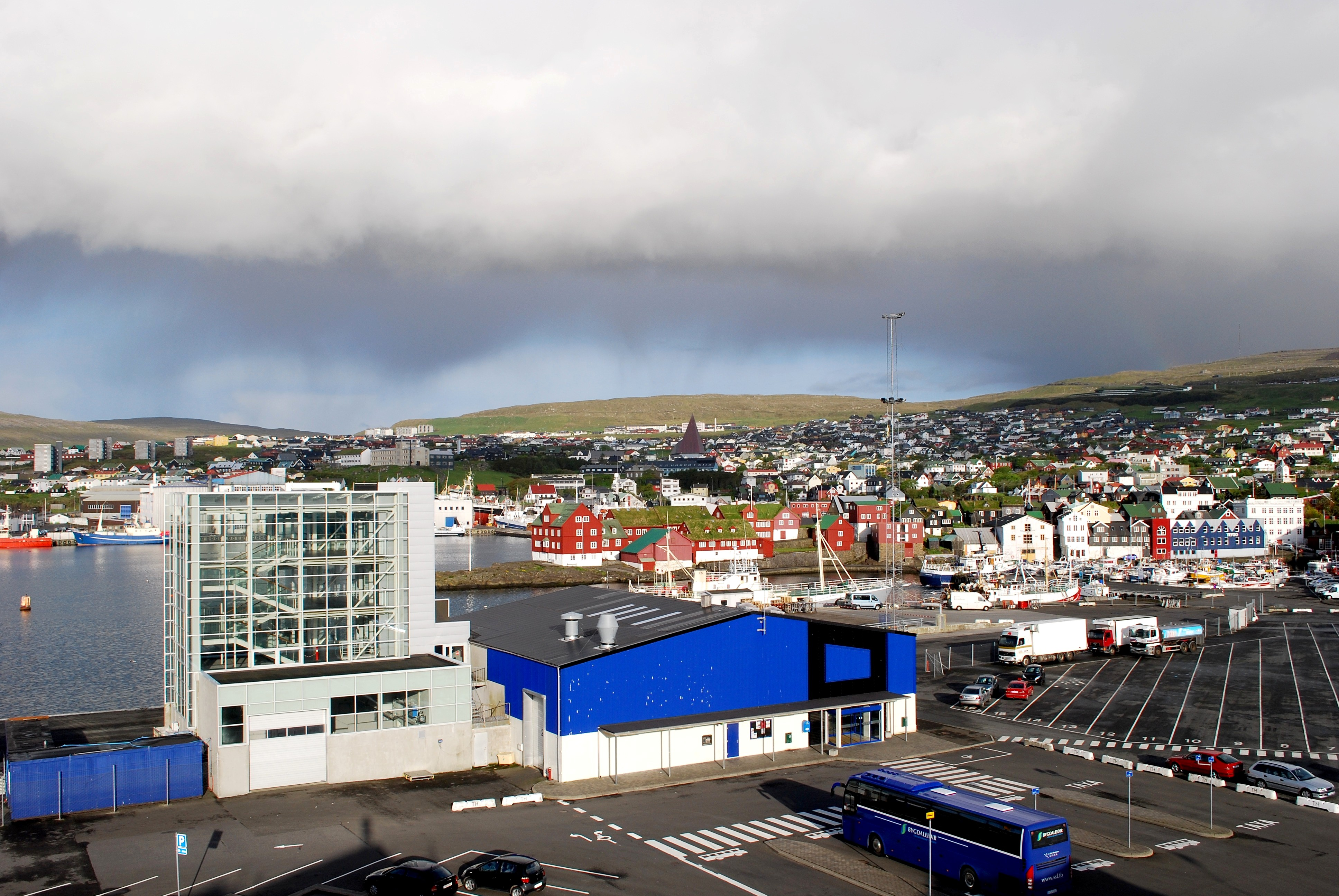 Harbour of Tórshavn, Faroe Islands. In the foreground is Farstøðin, which is the ferry port terminal of Smyril and Norrøna and the bus station of Tórshavn.